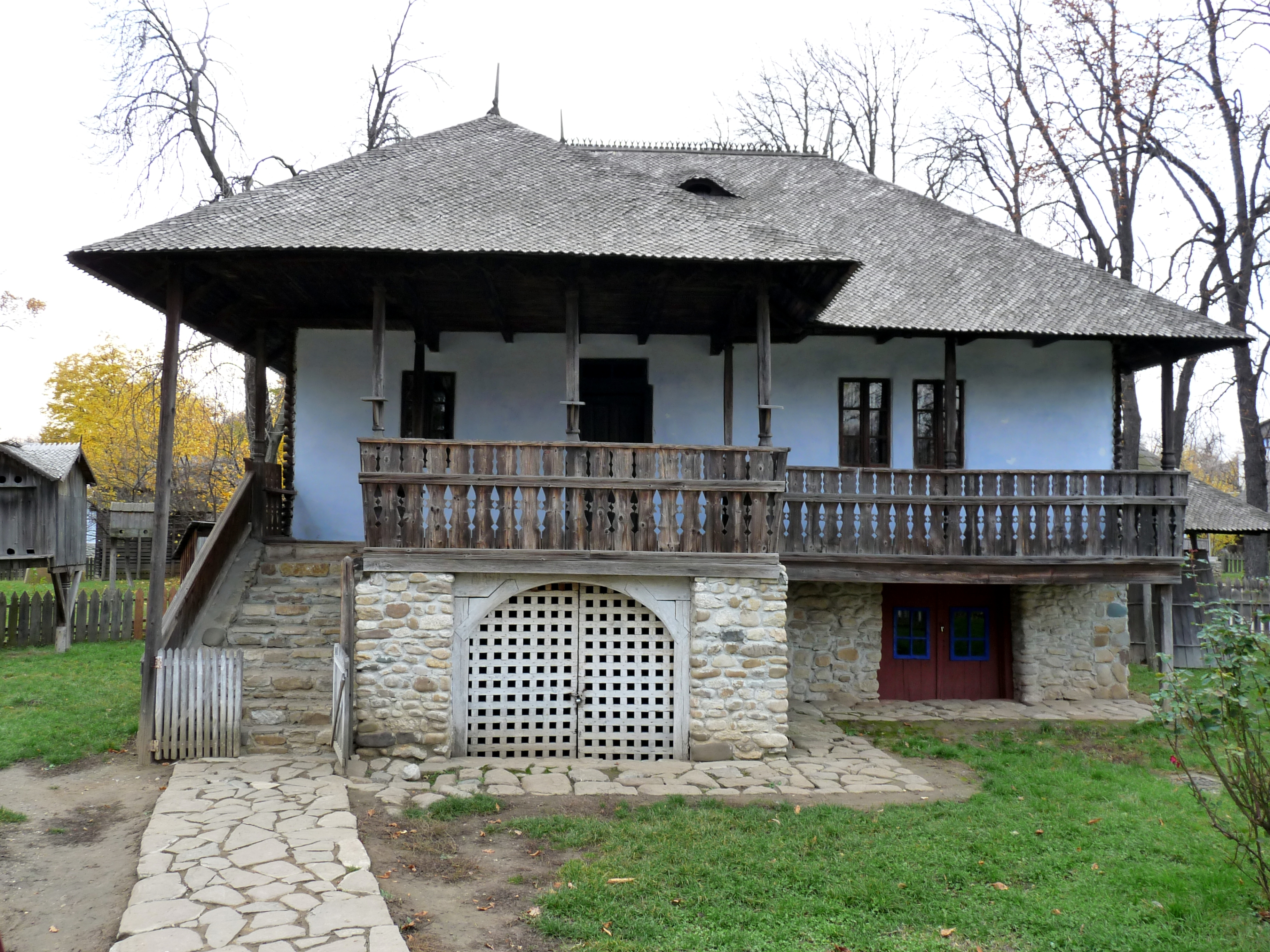 18th century household from Chiojdu Mic, Buzău County, Romania, exhibited in the Village Museum in Bucharest. The house.